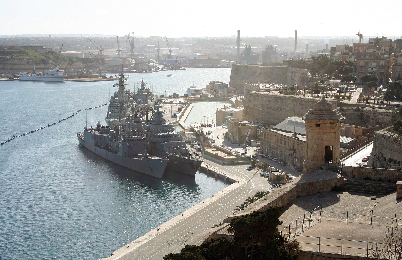 Malta, Floriana (not Valletta), war ships